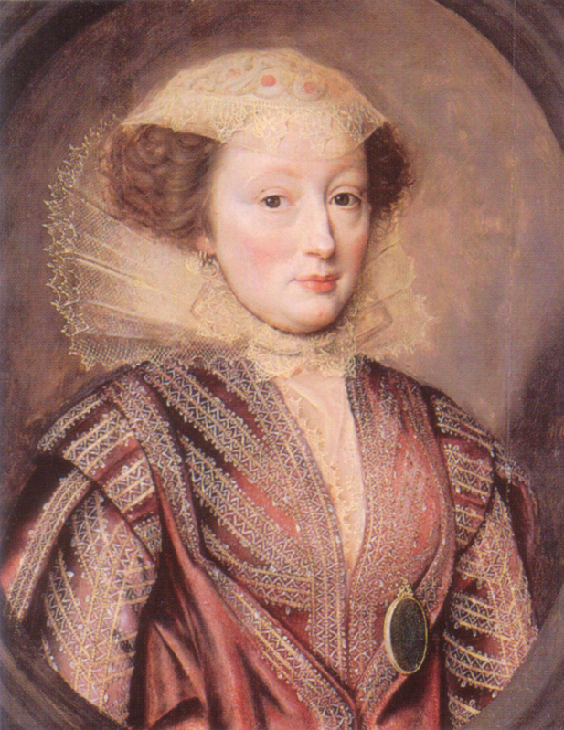 Elizabeth Wriothesley, Countess of Southampton (1572-1655) c. 1618, the Bedford Estate